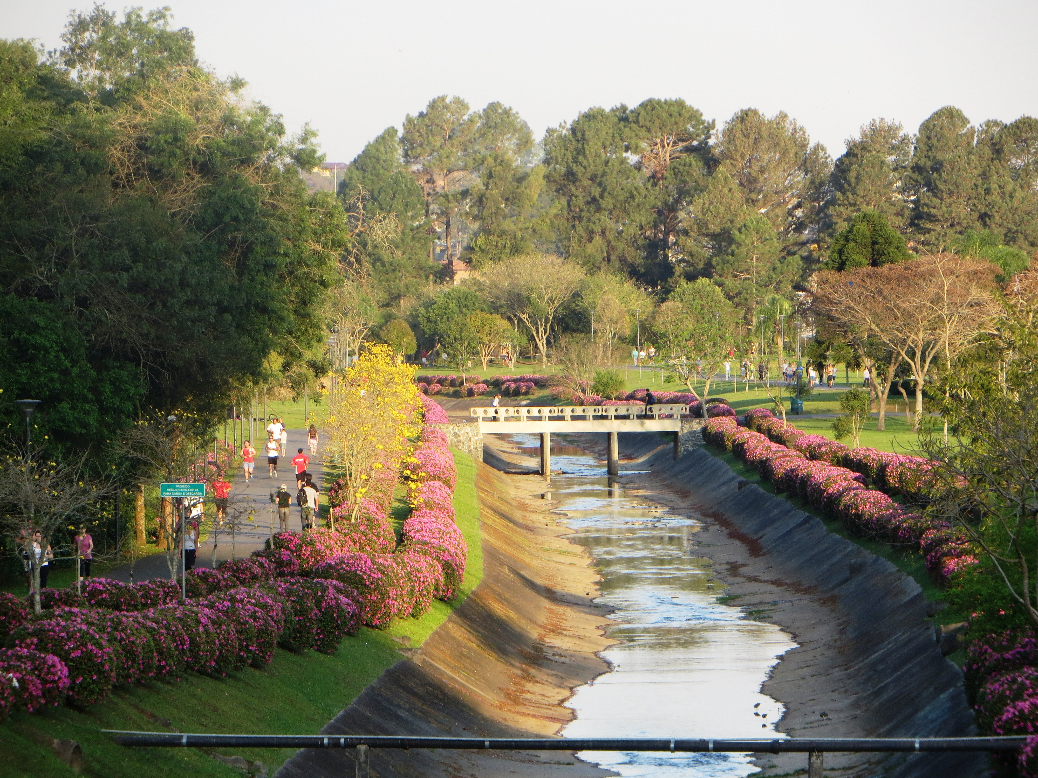 Bacacheri River.